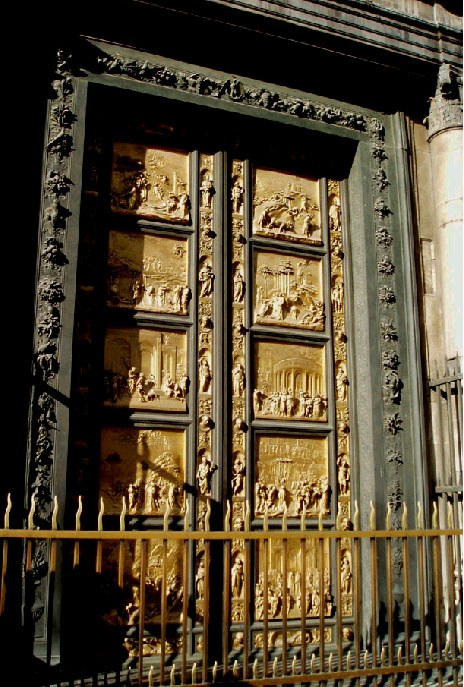 Photograph of the Gates of Paradise, Florence, Italy